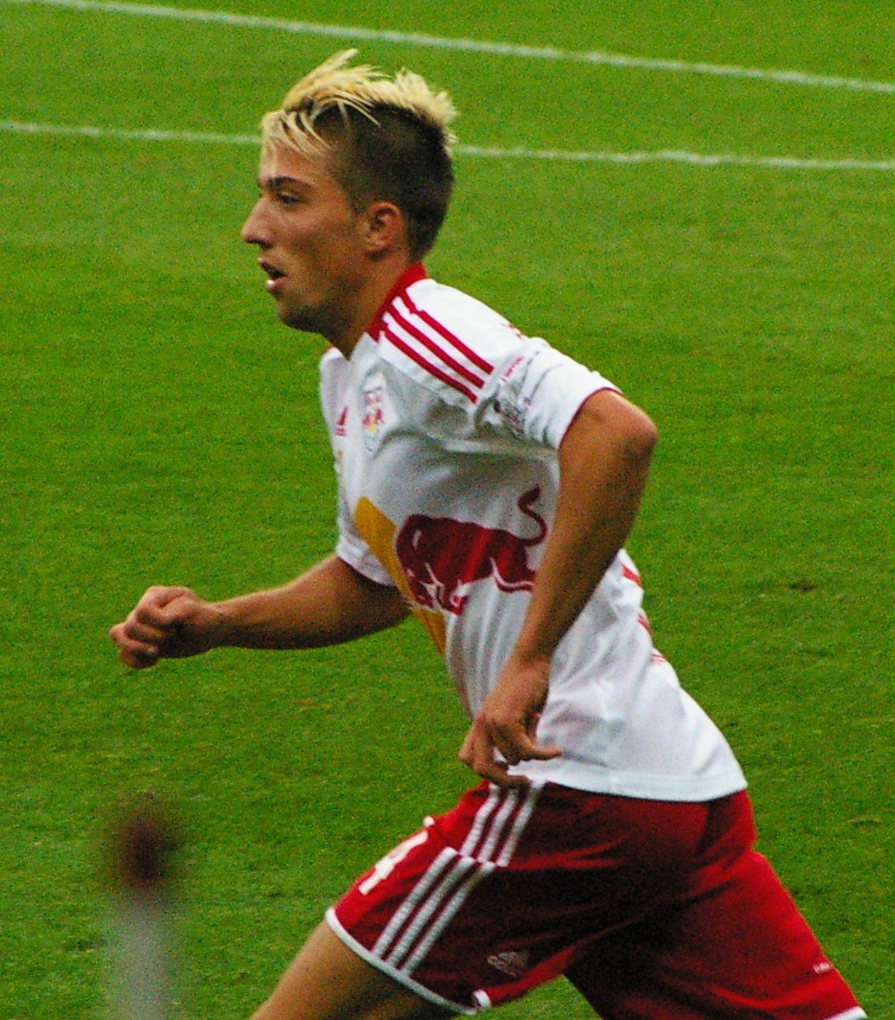 league match